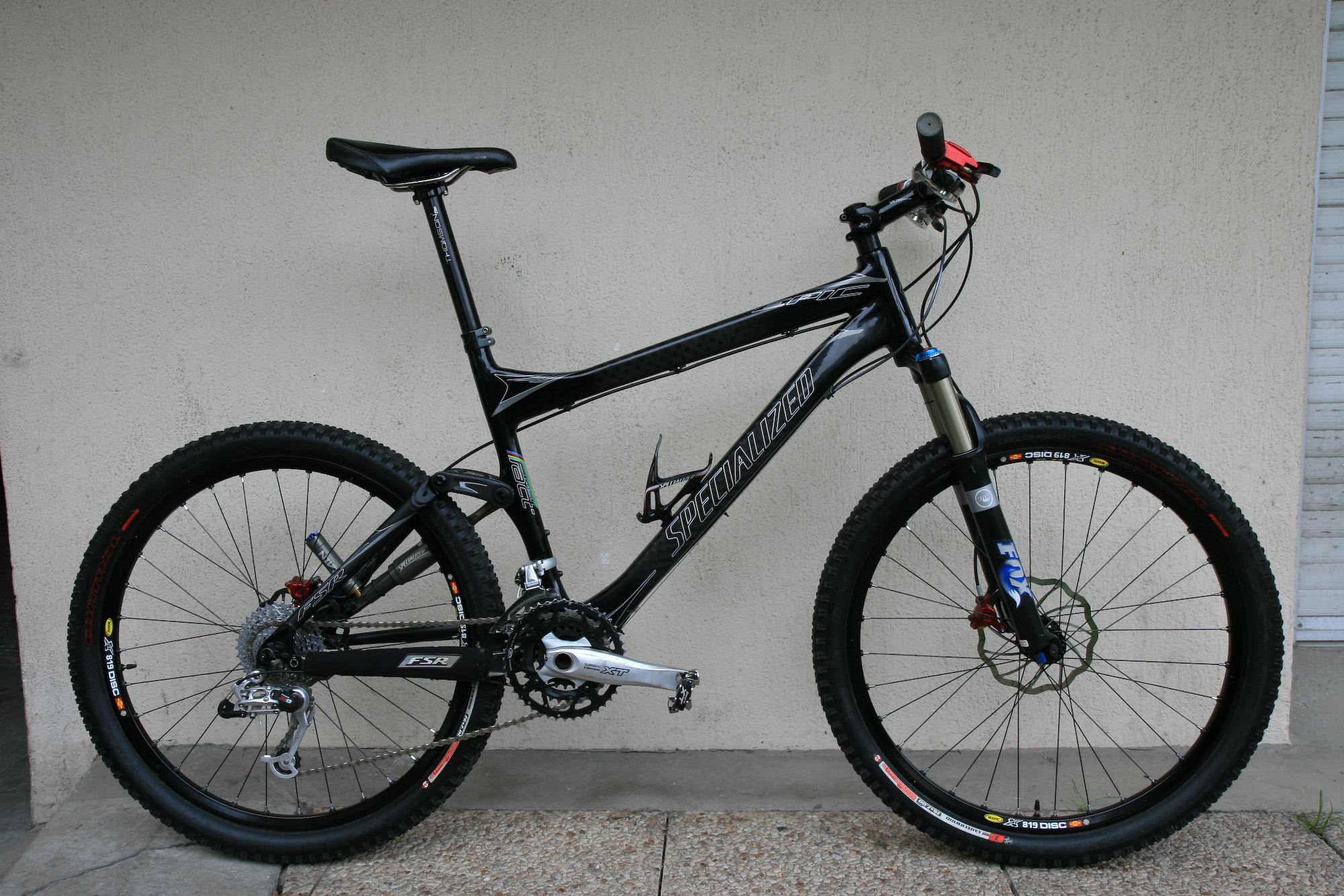 Specialized Epic Marathon Carbon 2007, showing the general frame geometry, inc. the specific rear shock position